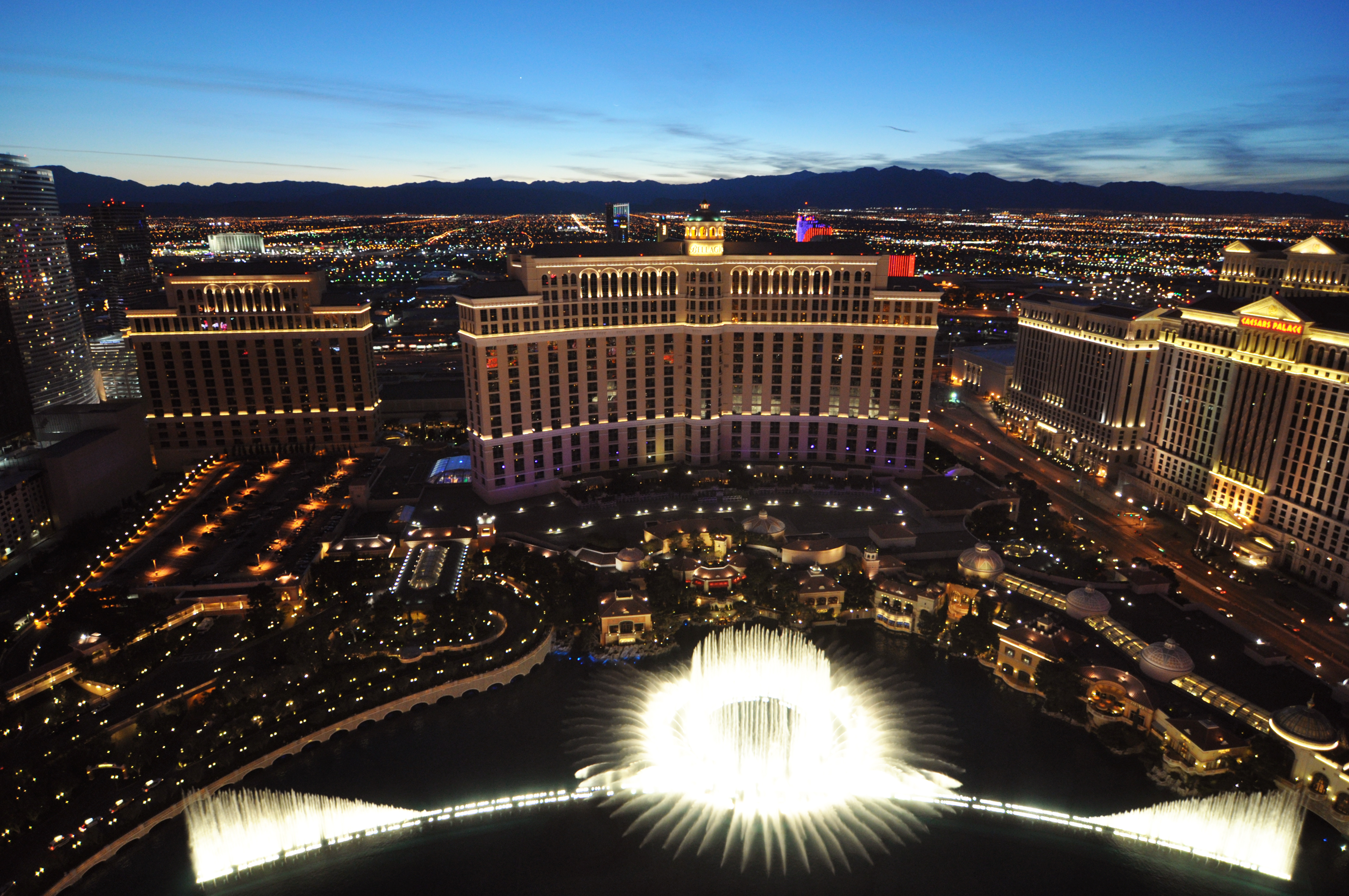 Las Vegas strip The Bellagio fountain 2010